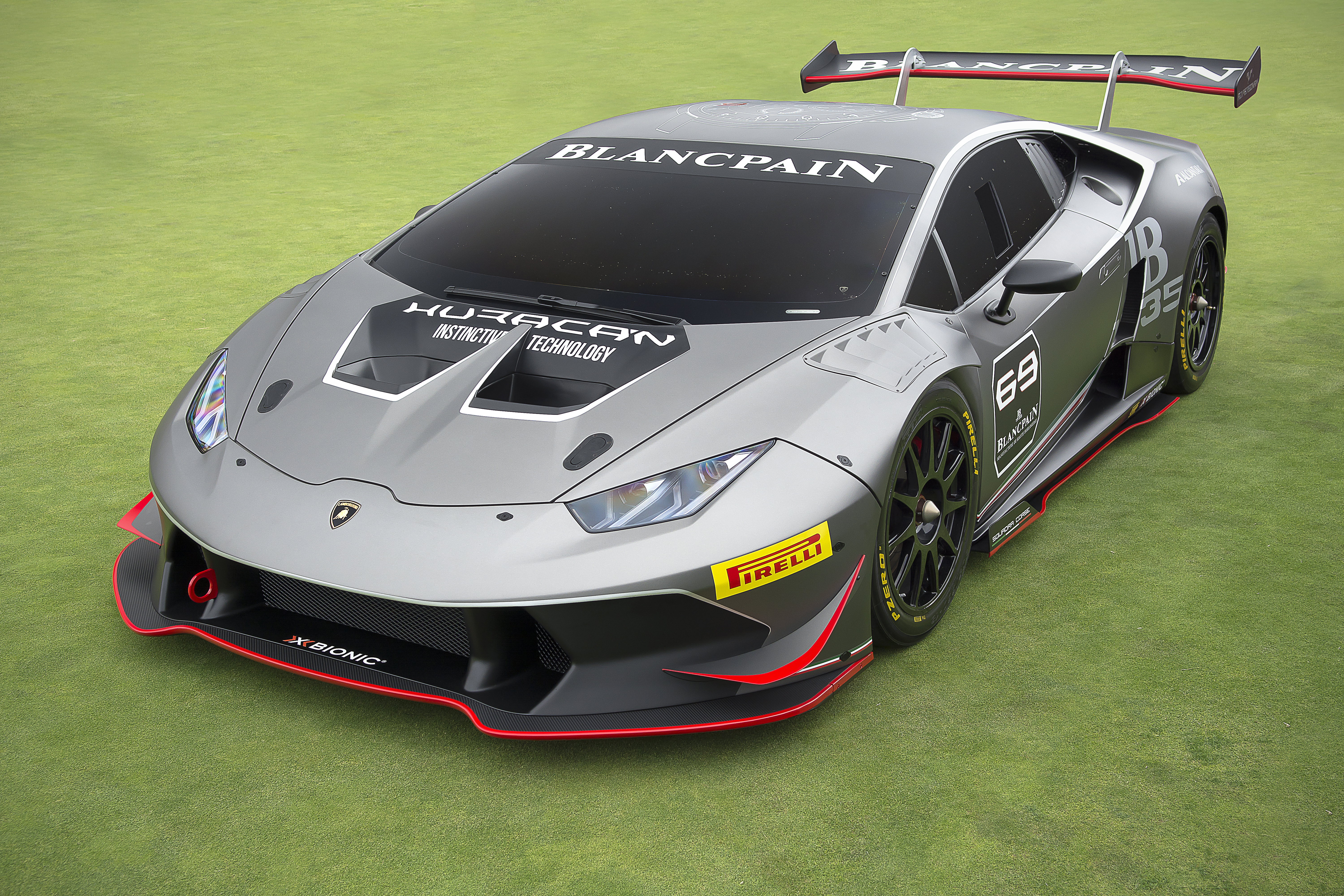 Lamborghini Huracán LP 620-2 Super Trofeo in Pebble Beach for Monterey Car Week 2014. (cc) Creative Commons Personal and Commercial with Attribution. If you use this photo make sure you source with a link back to my site at